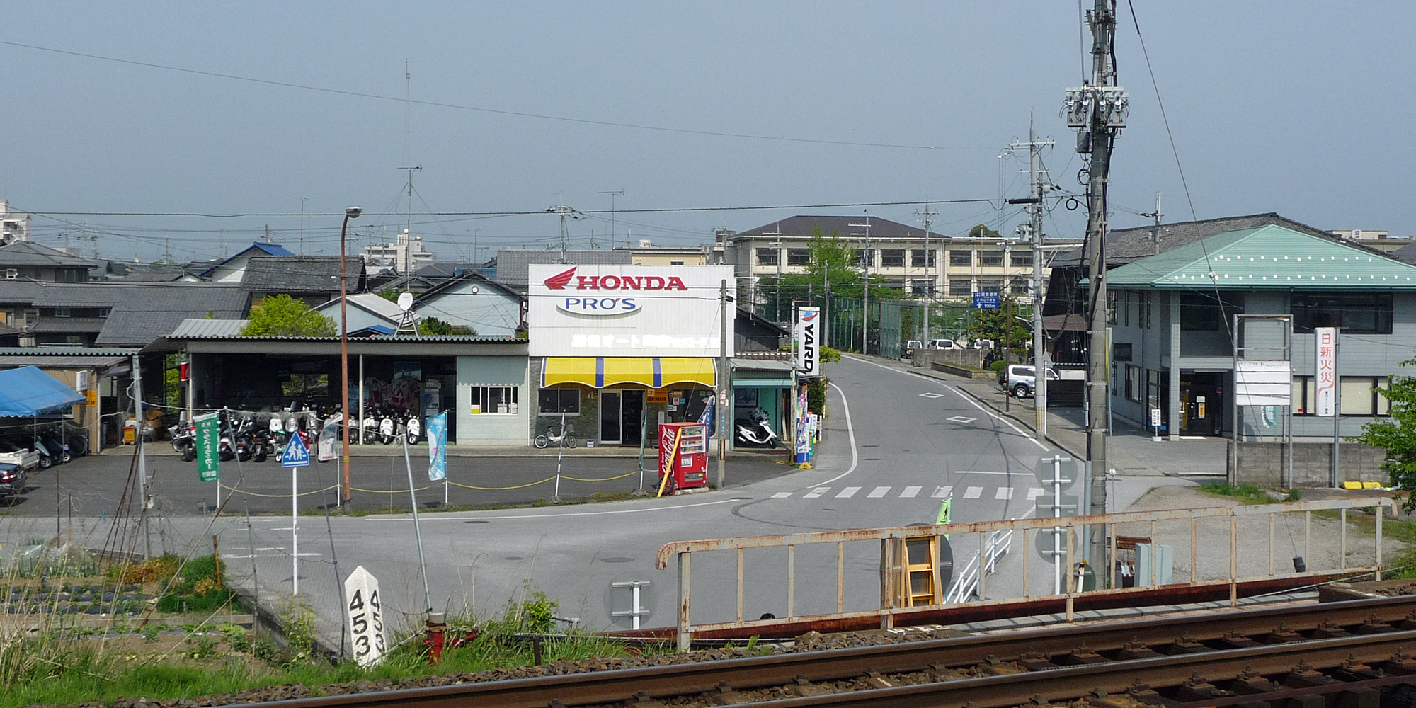 Hikone Serikawa Station west,Ohmi Railway.